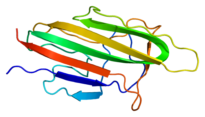 Structure of the COL10A1 protein. Based on PyMOL rendering of PDB 1gr3.